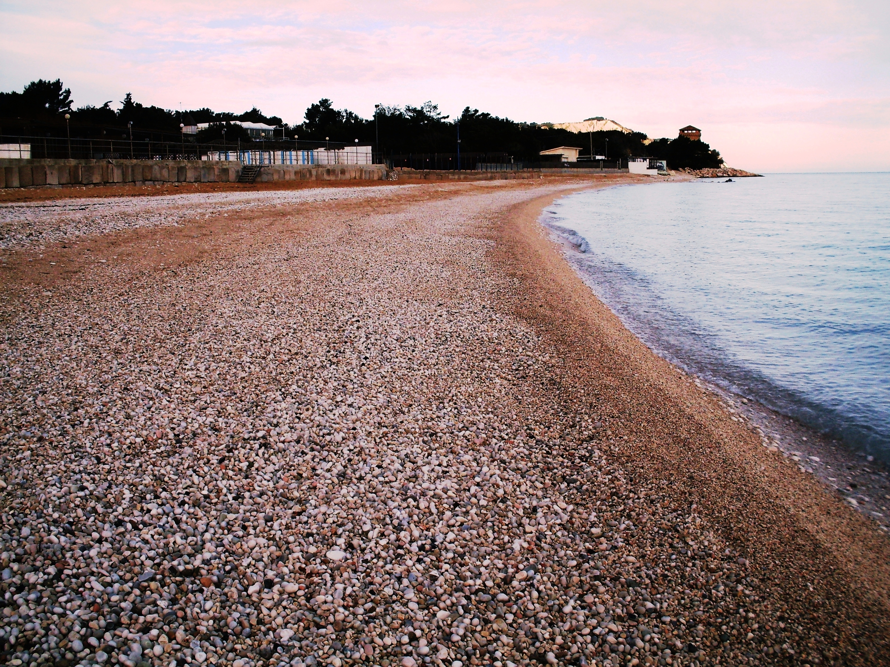 Italy Ancona Portonovo - Capannina beach